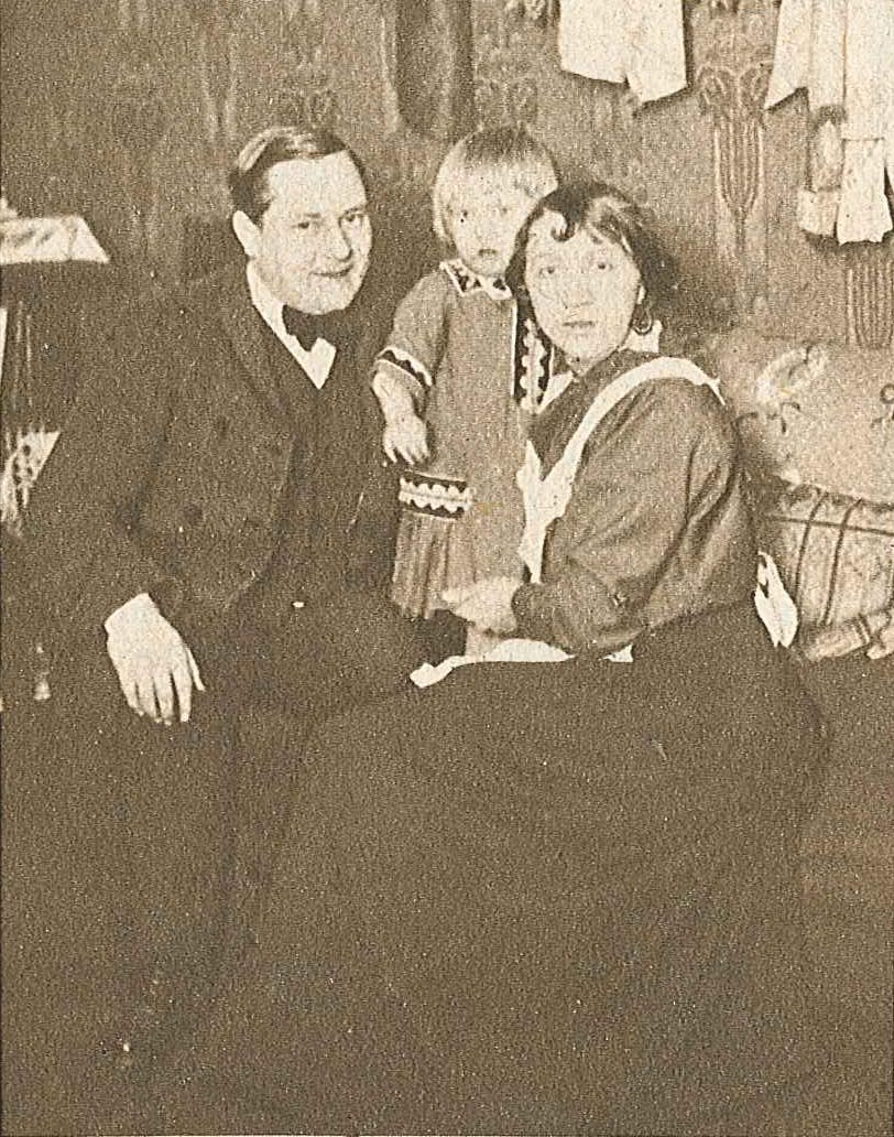 Eugen Nilsson (1885-1924), Swedish actor; shown here with his wife and child.